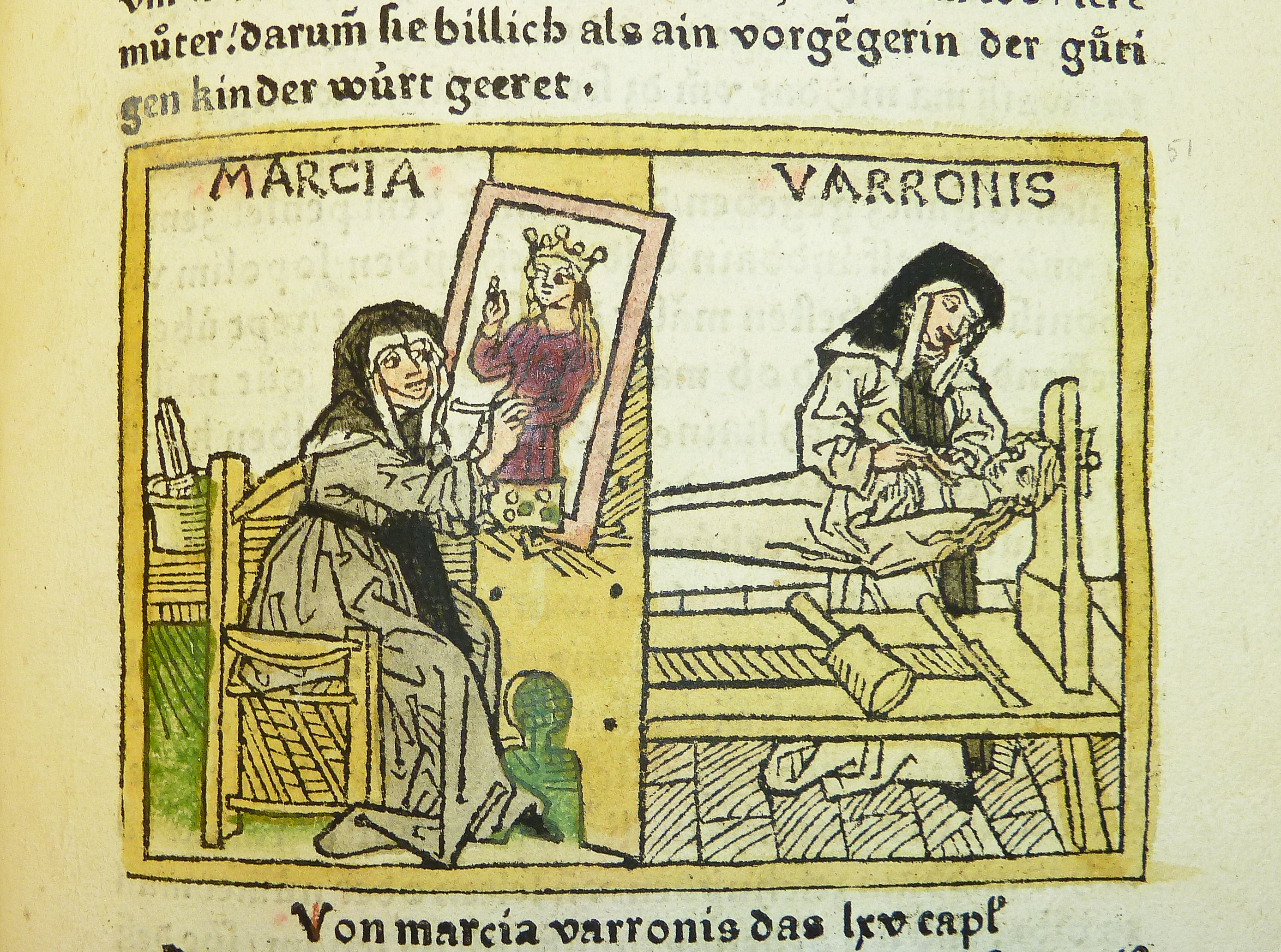 Woodcut illustration (leaf [l]1r, f. lxxxxv) of the artist Marcia Varronis (or Iaia of Cyzicus), hand-colored in red, green, yellow and black, from an incunable German translation by Heinrich Steinhöwel of Giovanni Boccaccio's De mulieribus claris, printed by Johannes Zainer at Ulm ca. 1474 (cf. ISTC ib00720000). One of 76 woodcut illustrations (1 on leaf [e]8v dated 1473), each 80 x 110 mm., depicting scenes from the life of the women chronicled (for a full list of subjects, cf. W.L. Schreiber, Handbuch der Holz- und Metallschnitte des XV. Jahrhunderts (Nendeln: Kraus Reprints, 1969), no. 3506). "Pour la première moitie le nom se trouve inscrit à côte de la tête de chaque femme, pour le reste il es ajouté entre les deux réglettes. Il n'y en a que trois, qui n'ont qu'un seul trait carré."--Schreiber. Established form: Zainer, Johannes, ‡d d. 1541?. Penn Libraries call number: Inc B-720 All images from this book Penn Libraries catalog record